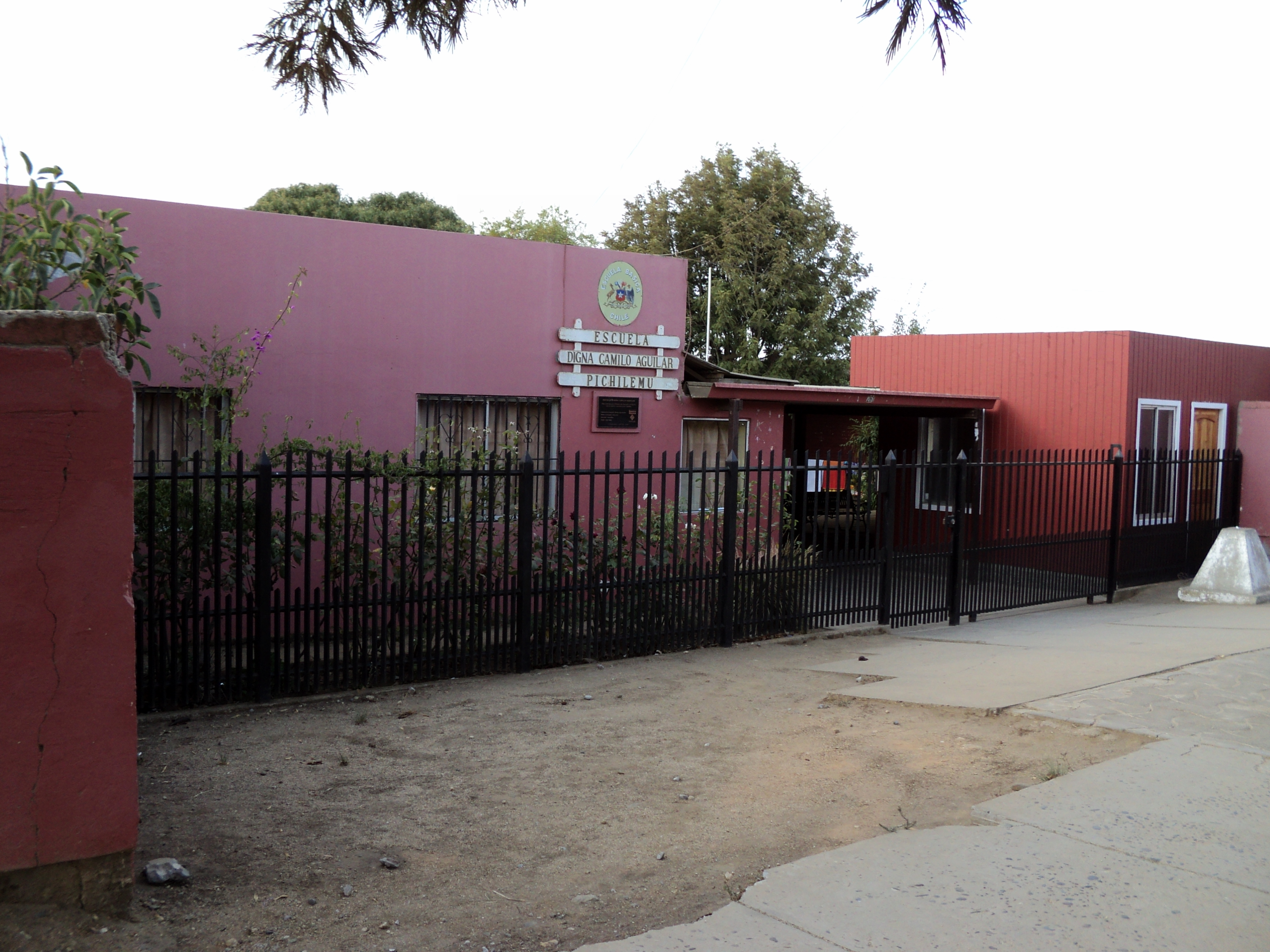 Escuela Digna Camilo Aguilar, in Pichilemu on February 25, 2011.